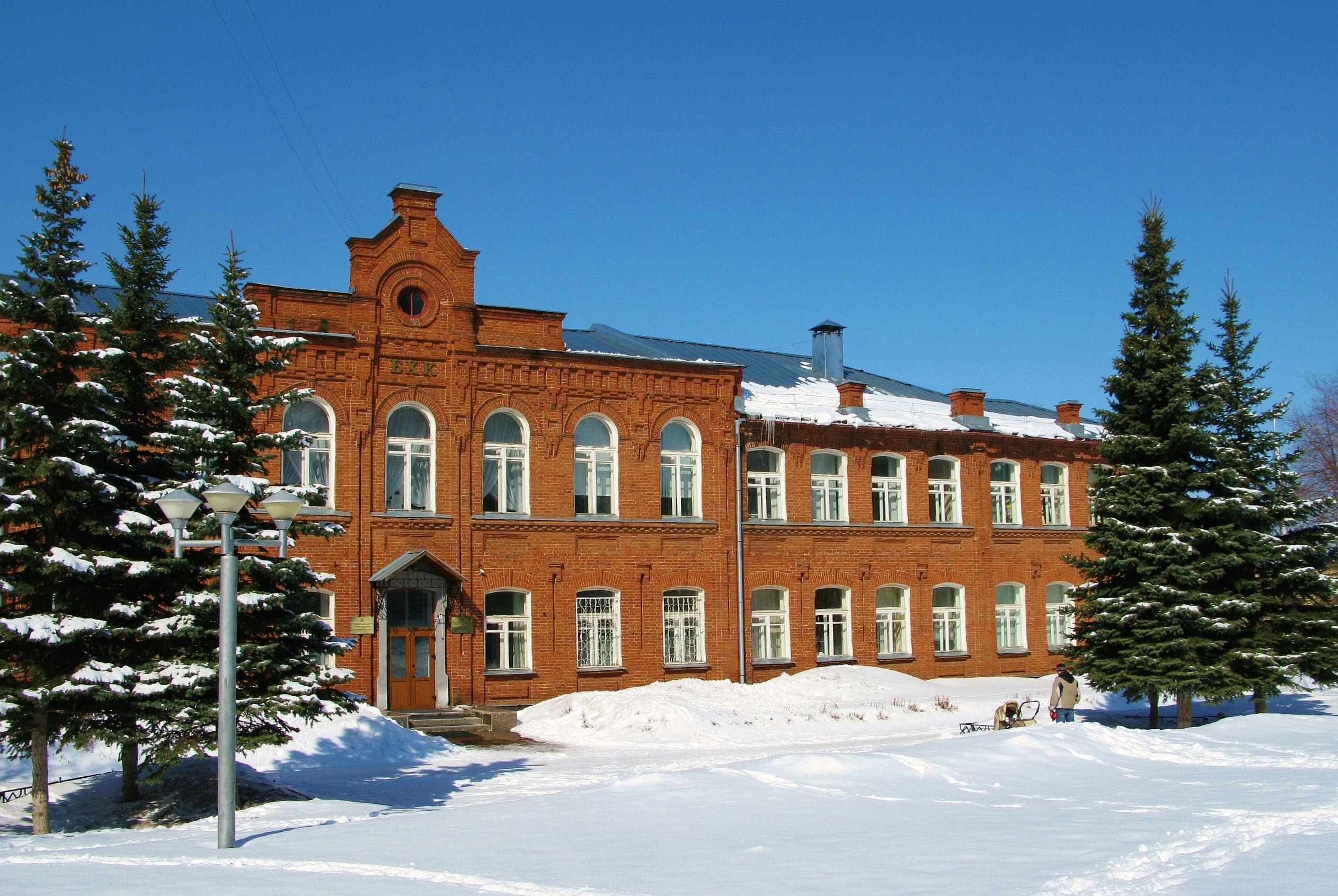 Ufa town